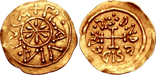 Lucca. Lombard rule. VII century. AV Tremissis (16mm, 1.43 g, 8h). DN DESIDER REX, cross potent. FLAVIA LVCA, stellate symbol within circle; leaves in voids.